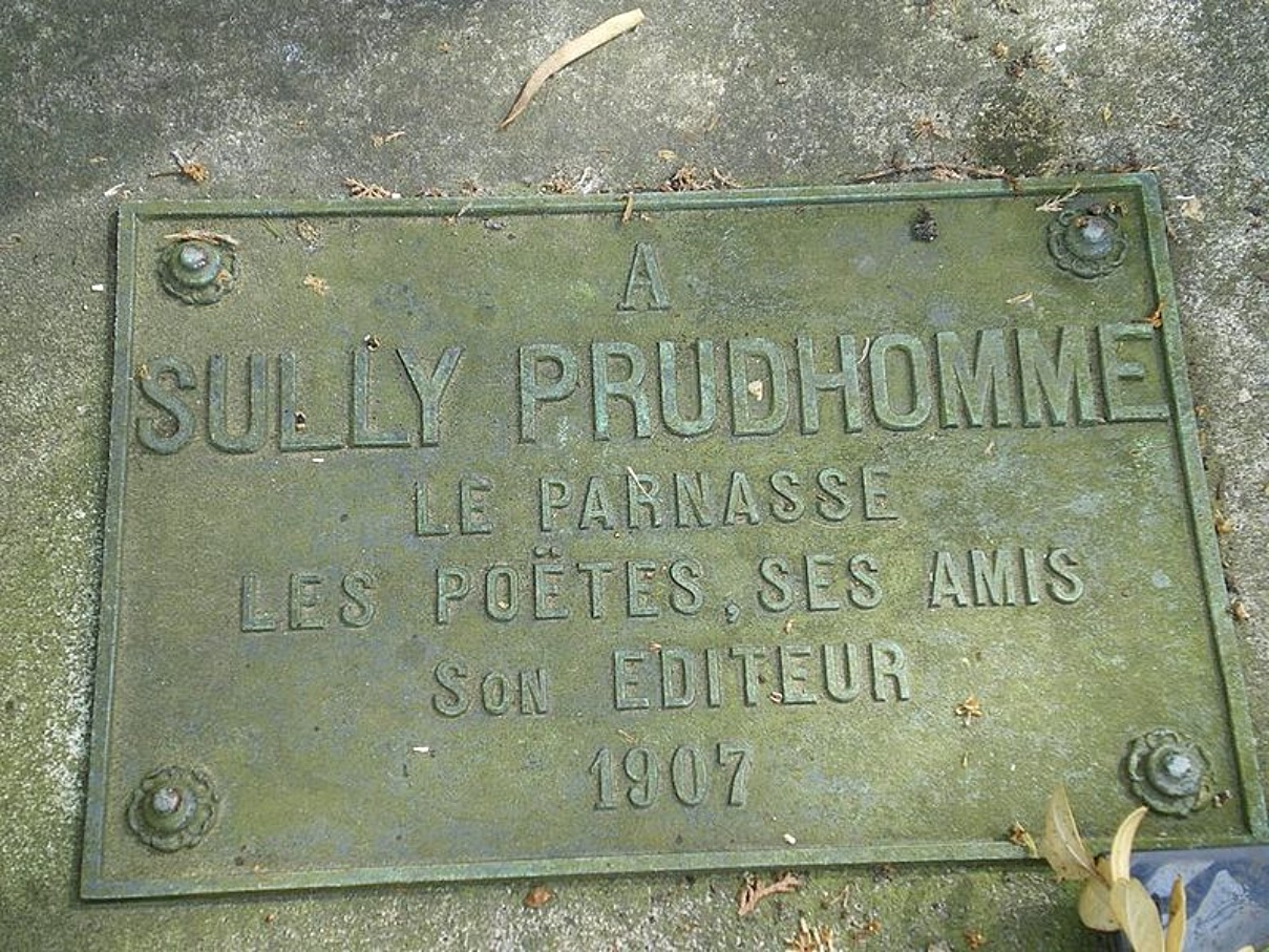 Sully Prudhomme tomb